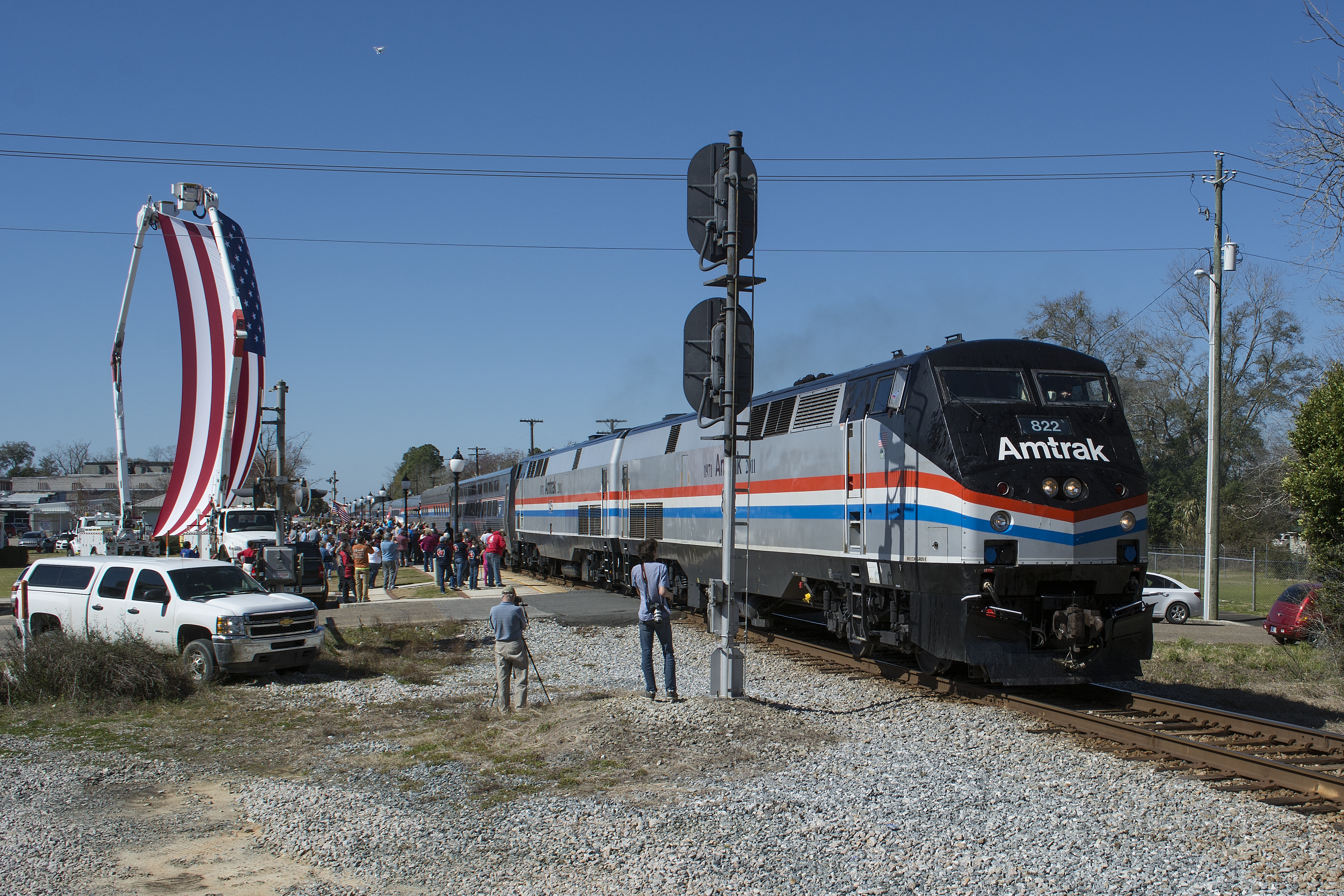 The Amtrak Return to Service Special arrived to fanfare and an overwhelming crowd of supporters in Chipley, FL.